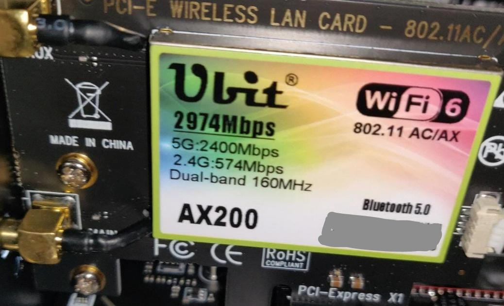 Ubit AX200 Wifi6 3000 Mbps PCIE card